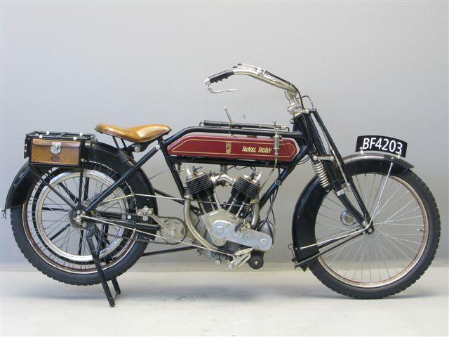 Royal Ruby 6 HP 750 cc motorcycle from 1913 with a JAP v-twin side valve engine